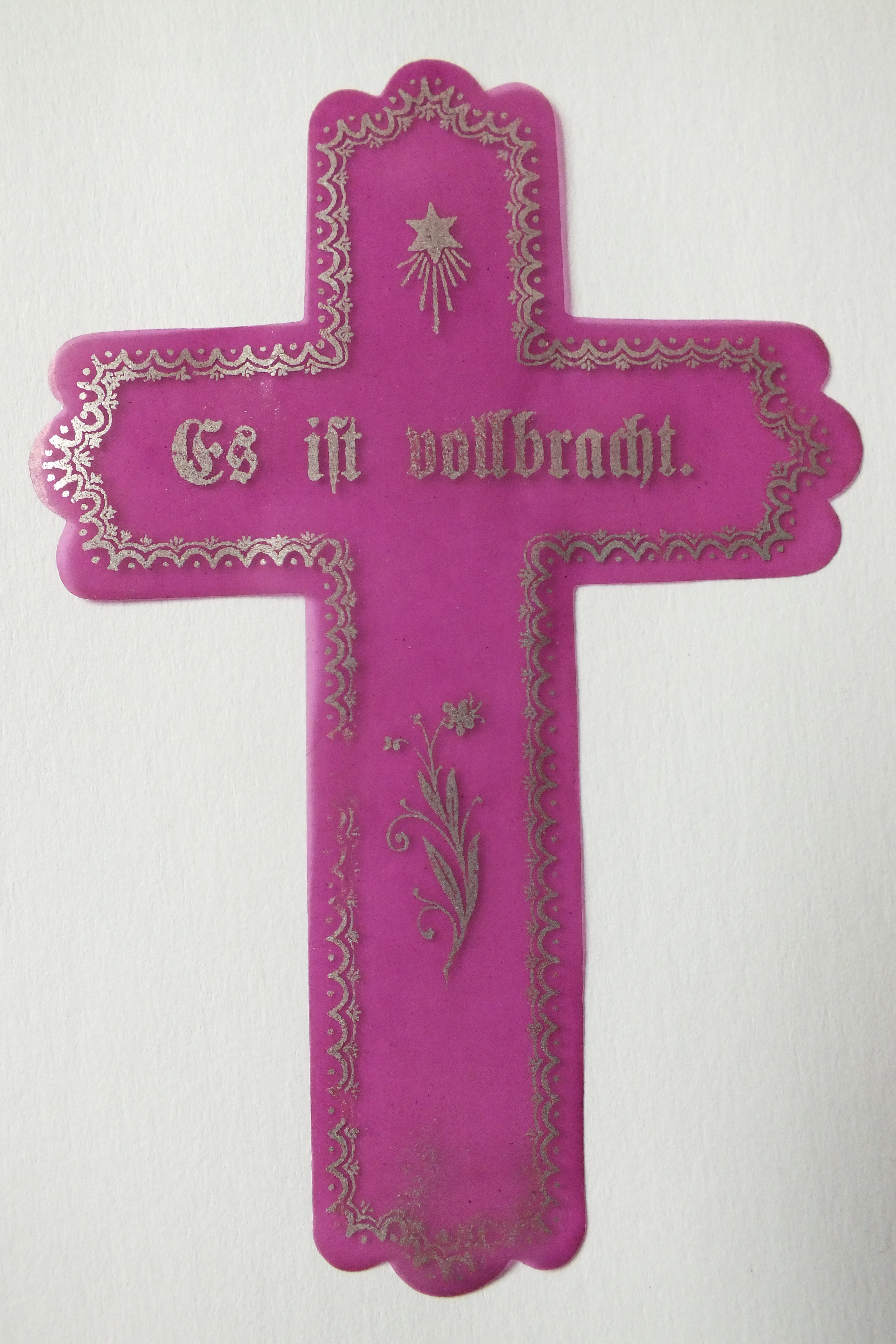 Gelatine picture, Germany, end of 19th century, cross, purple, probably coloured gelatine (in earlier times such pictures were made of the swim bladder of beluga), body heat makes it roll up when put on palm or breathed upon, white print: Es ist vollbracht. (It is done.), used as devotional picture and to reward school children in Religious Education.